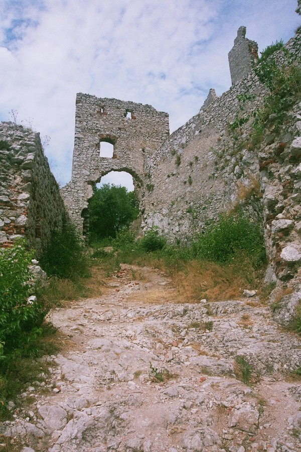 Ruins of Plavecký hrad, Western Slovakia